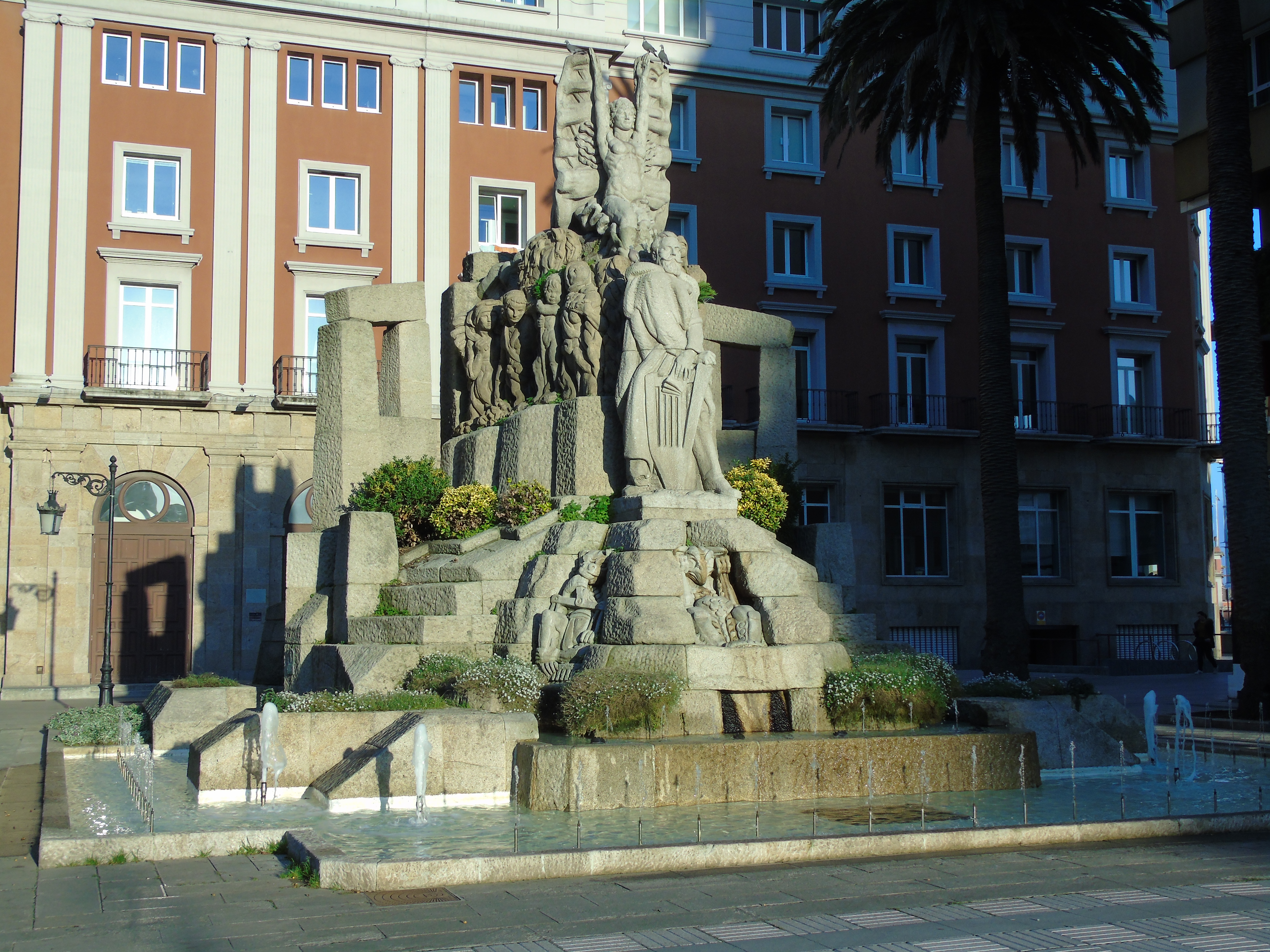 Monument to Curros Enríquez in Corunna, Galicia, Spain